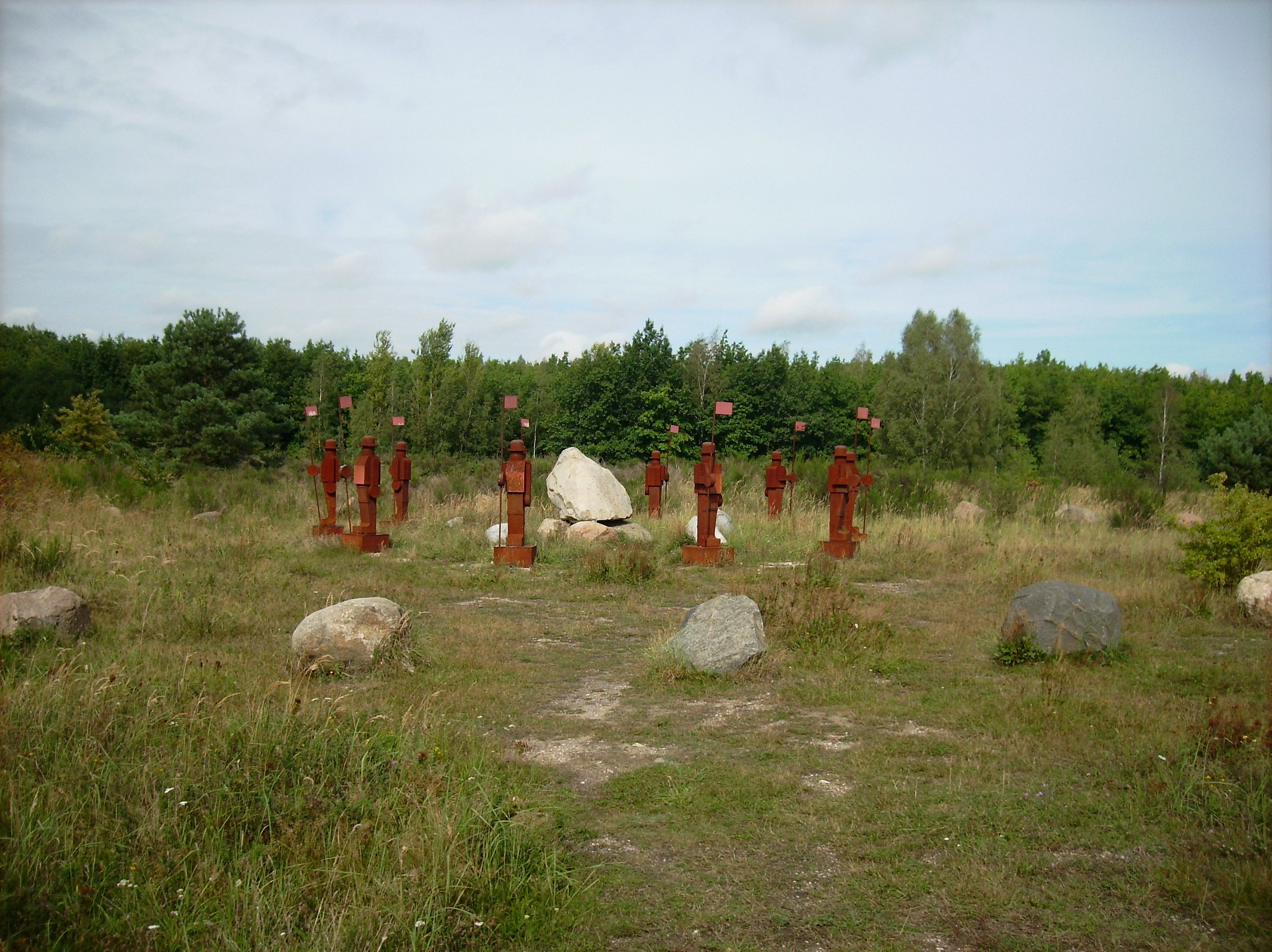 The Guardians of the Goitzsche by Anatol Herzfeld near Paupitzsch Lake in the Goitzsche region south of Bitterfeld-Wolfen (Anhalt-Bitterfeld district, Saxony-Anhalt)